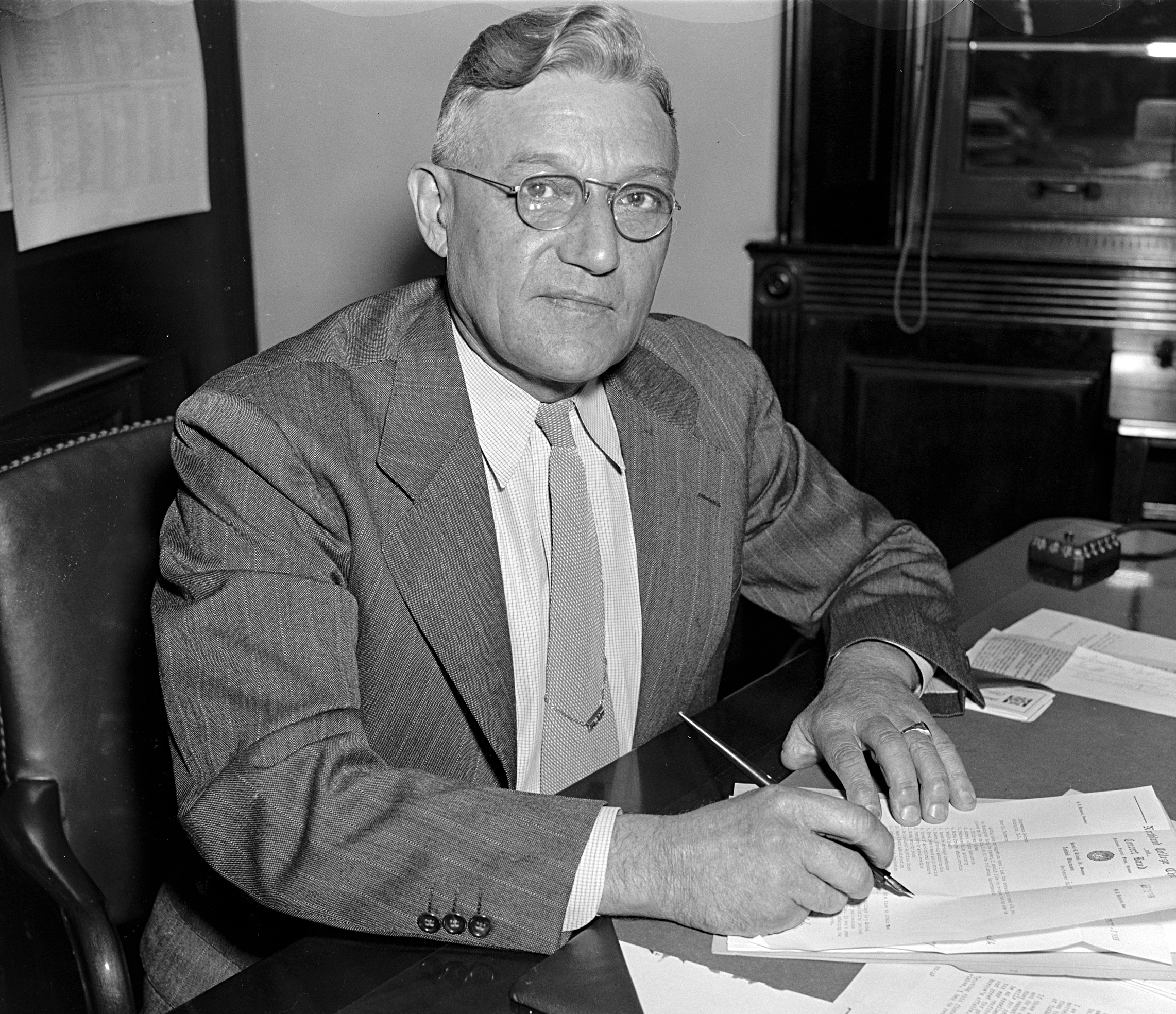 Bernard J. Gehrmann, US Representative from Wisconsin